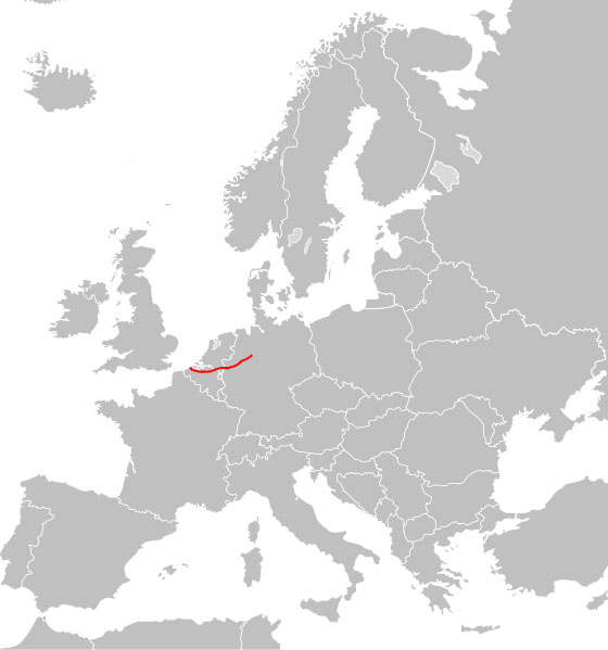 The European route 34